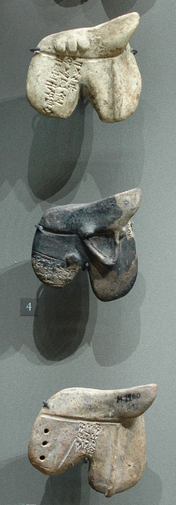 Divinatory livers, clay models for the training of soothsayers. The one in the middle is interpreted as fortelling the destruction of small cities. Baken clay, 19th–18th centuries BC, found in the royal palace at Mari (now in Syria).